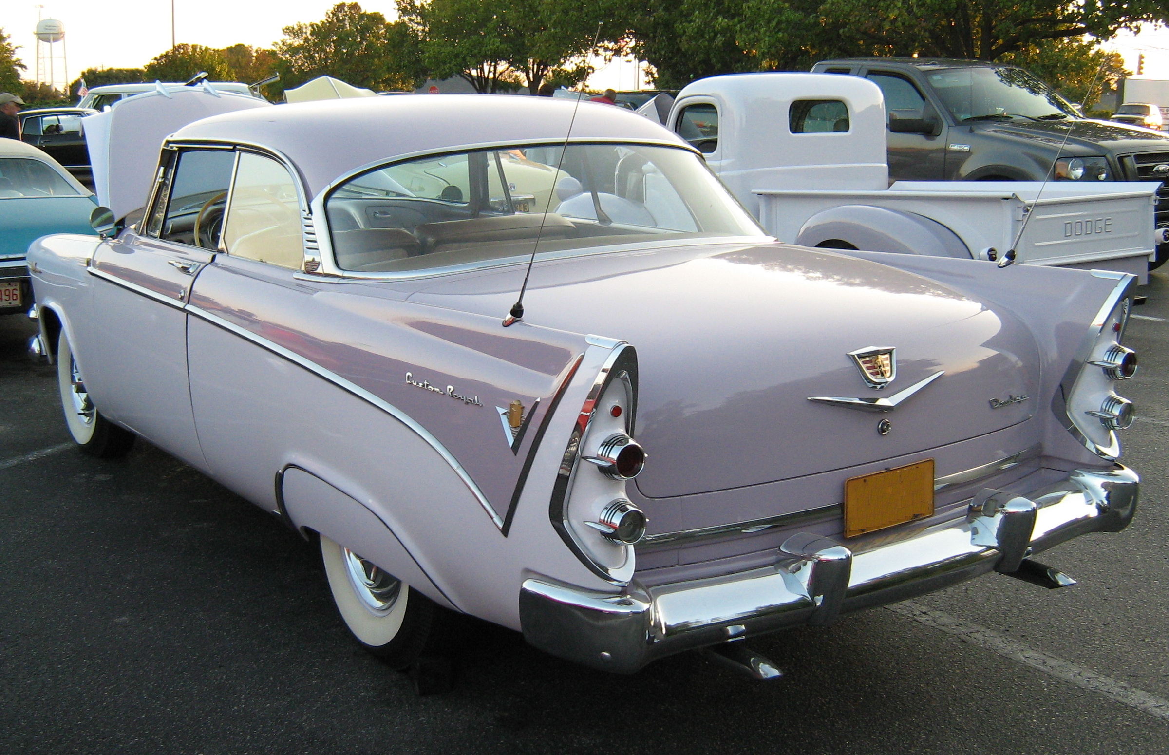 1956 Dodge La Femme - rear view